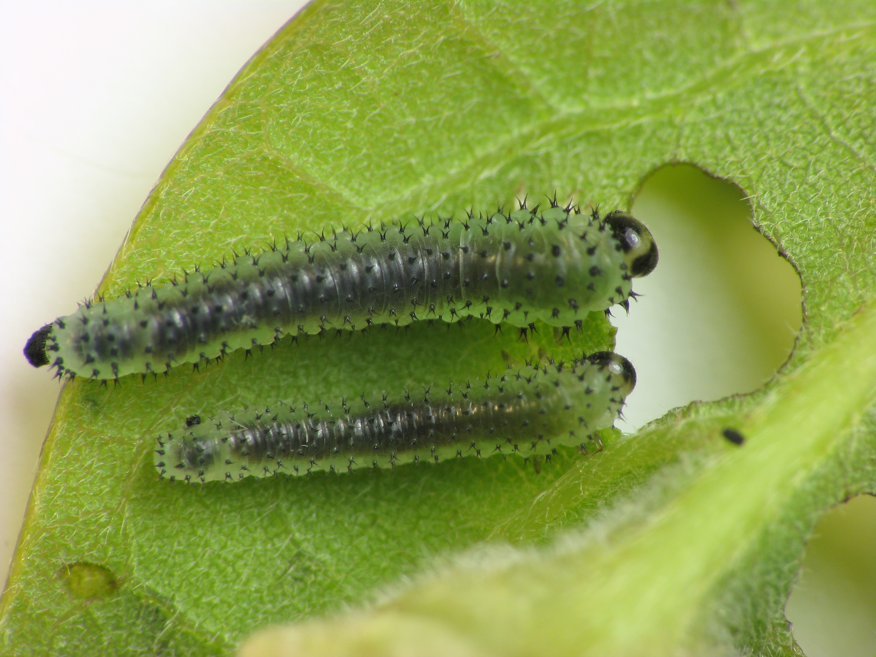 Sawfly, Periclista, larvae on oak tree. Size: 7-8 mm. Rocky Gap State Park, Allegany County, Maryland, USA.